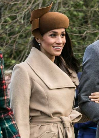 Prince Harry and Meghan Markle with other members of the Royal family going to church at Sandringham on Christmas Day 2017.